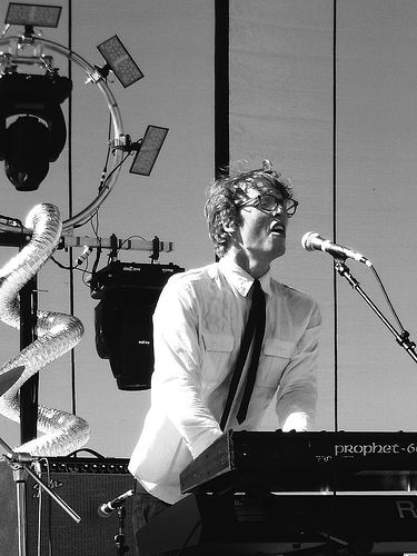 Photo by Christopher Kemp, CC-Attribution-ShareAlike 2.0